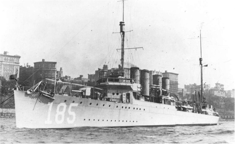 American Wickes class destroyer USS Bagley (DD-185). She was transferred to Britain as HMS St. Mary's (I-12) in 1940.